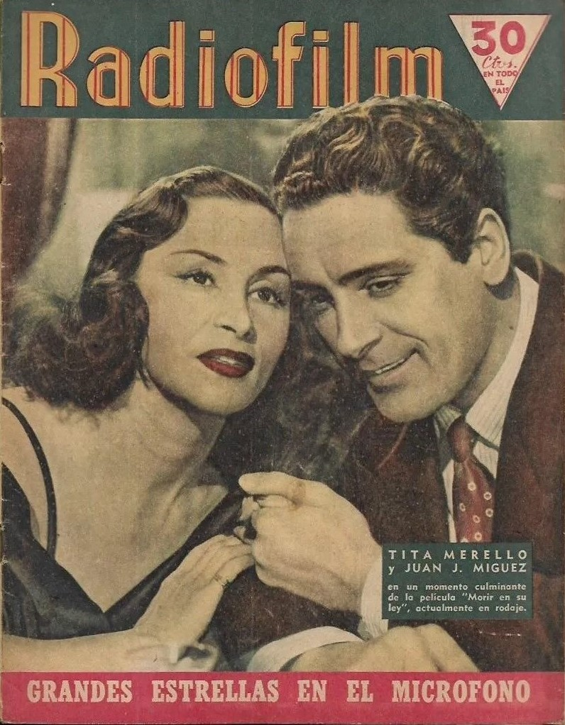 Tita Merello and Juan José Miguez on Radiofilm cover, N° 213, 1949. (Morir en su ley)